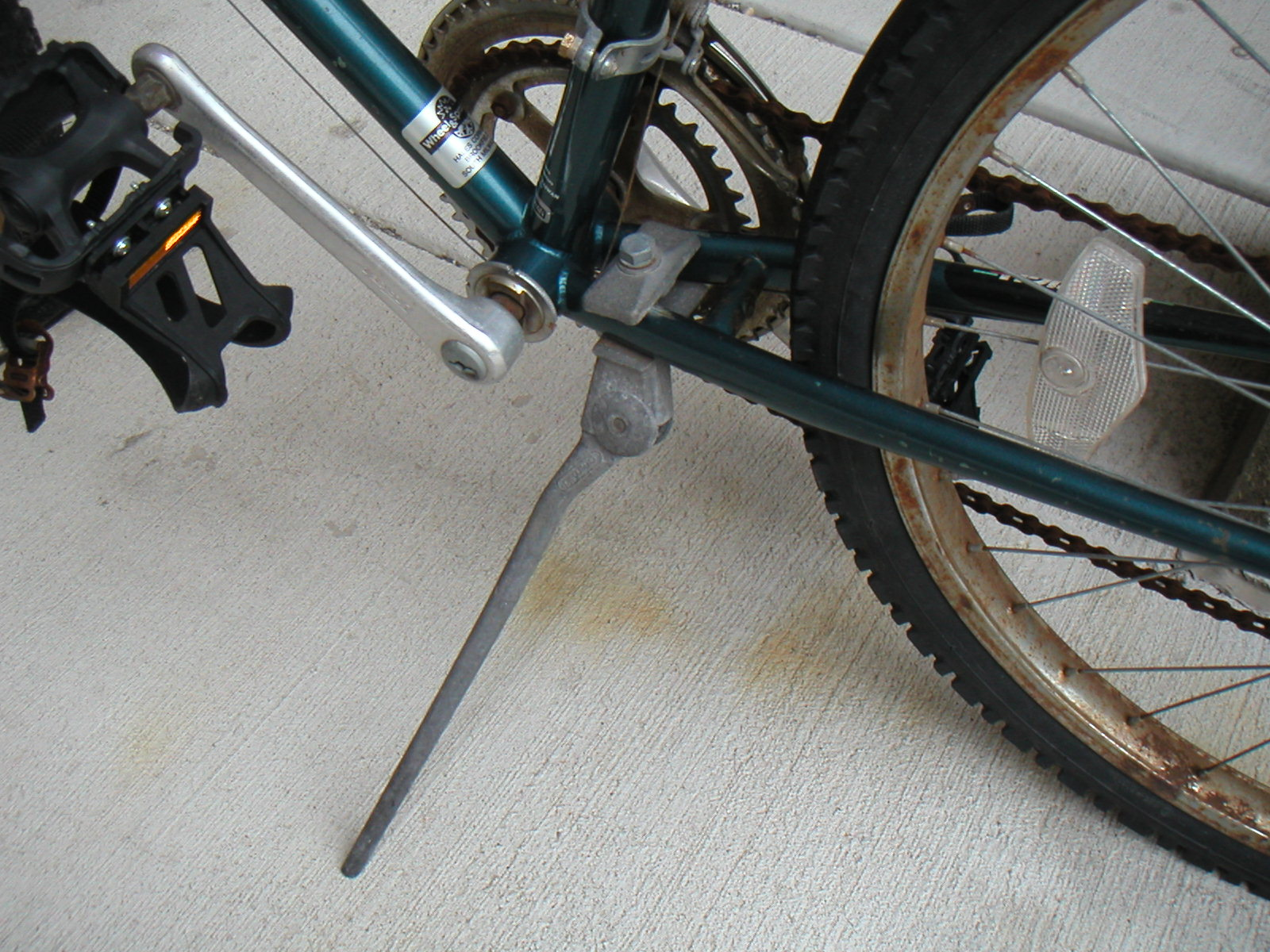 Taken by Andrew Dressel